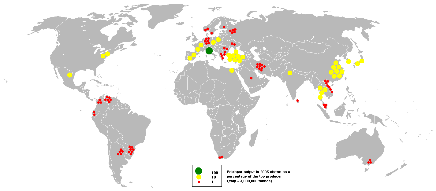 This bubble map shows the global distribution of feldspar output in 2005 as a percentage of the top producer (Italy - 3,000,000 tonnes). For example two yellow circles in France means French output is 20% of the top producer Italy. This map is consistent with incomplete set of data too as long as the top producer is known. It resolves the accessibility issues faced by colour-coded maps that may not be properly rendered in old computer screens. Data was extracted on 2nd June 2007. Source - Based on :Image:BlankMap-World.png